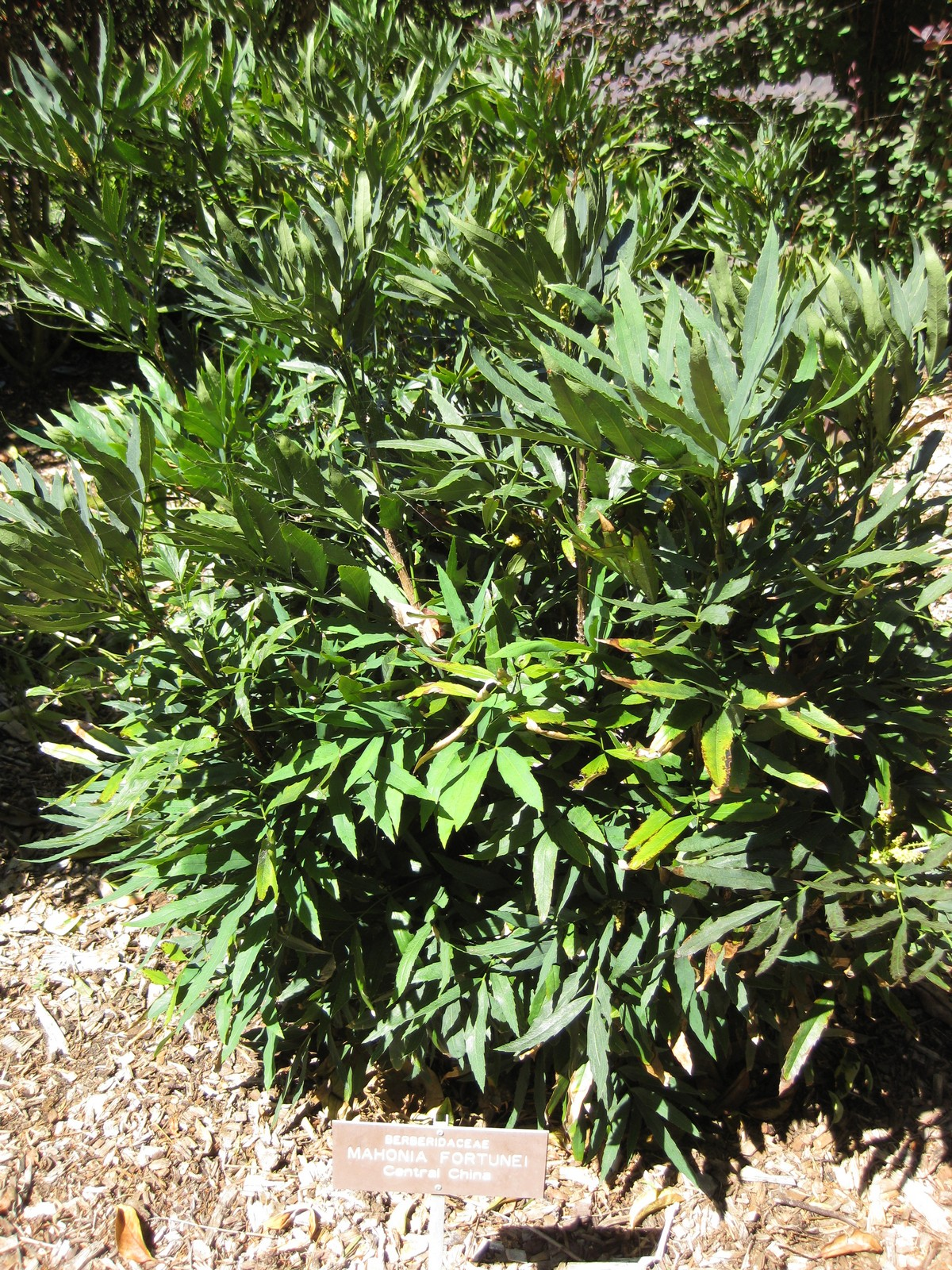 Mahonia fortunei. Photographed at the Royal Botanic Gardens Sydney (Australia) in December